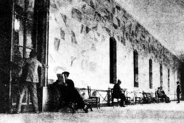 Michele Angiolillo assassinates spanish premier Cánovas. Drawing from a contemporary journal.